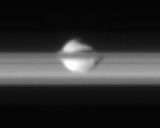 Paraphrased extract from the image's caption: Saturn's small, walnut-shaped moon, Pan, embedded in the planet's rings, coasts along in this image from the Cassini spacecraft. The image was taken in visible light with the Cassini spacecraft narrow-angle camera on April 29, en:2006, at a distance of approximately 209,000 kilometers (130,000 miles) from Pan. The image scale is approximately 1 kilometer (0.6 miles) per pixel.